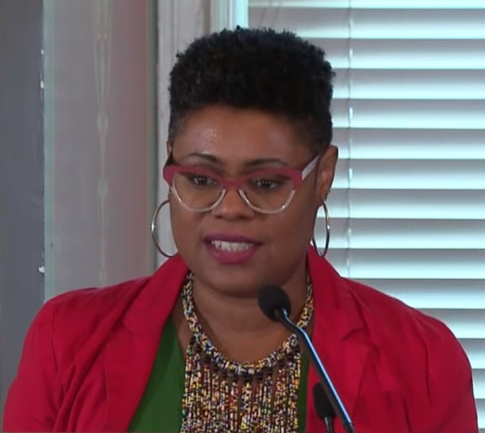 Georgette Dorn retires as chief of the Hispanic Division of the Library of Congress by presenting the 2018 Americas Awards. Ibi Zoboi, author of "American Street," and Duncan Tonatiuh, author and illustrator of "Danza! Amalia Hernández and El Ballet Folklórico de México" were awarded the 2018 Americas Award for Children's and Young-Adult Literature at the annual award presentation. The awards are presented annually to authors of U.S. works of fiction, poetry, folklore or selected non-fiction that authentically portray Latin America, the Caribbean, or Latinos in the United States. For transcript and more information, visit